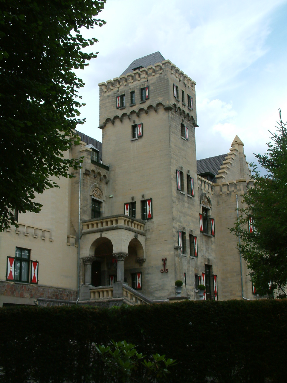 Geulzicht Castle, Geulhem near Valkenburg, The Netherlands